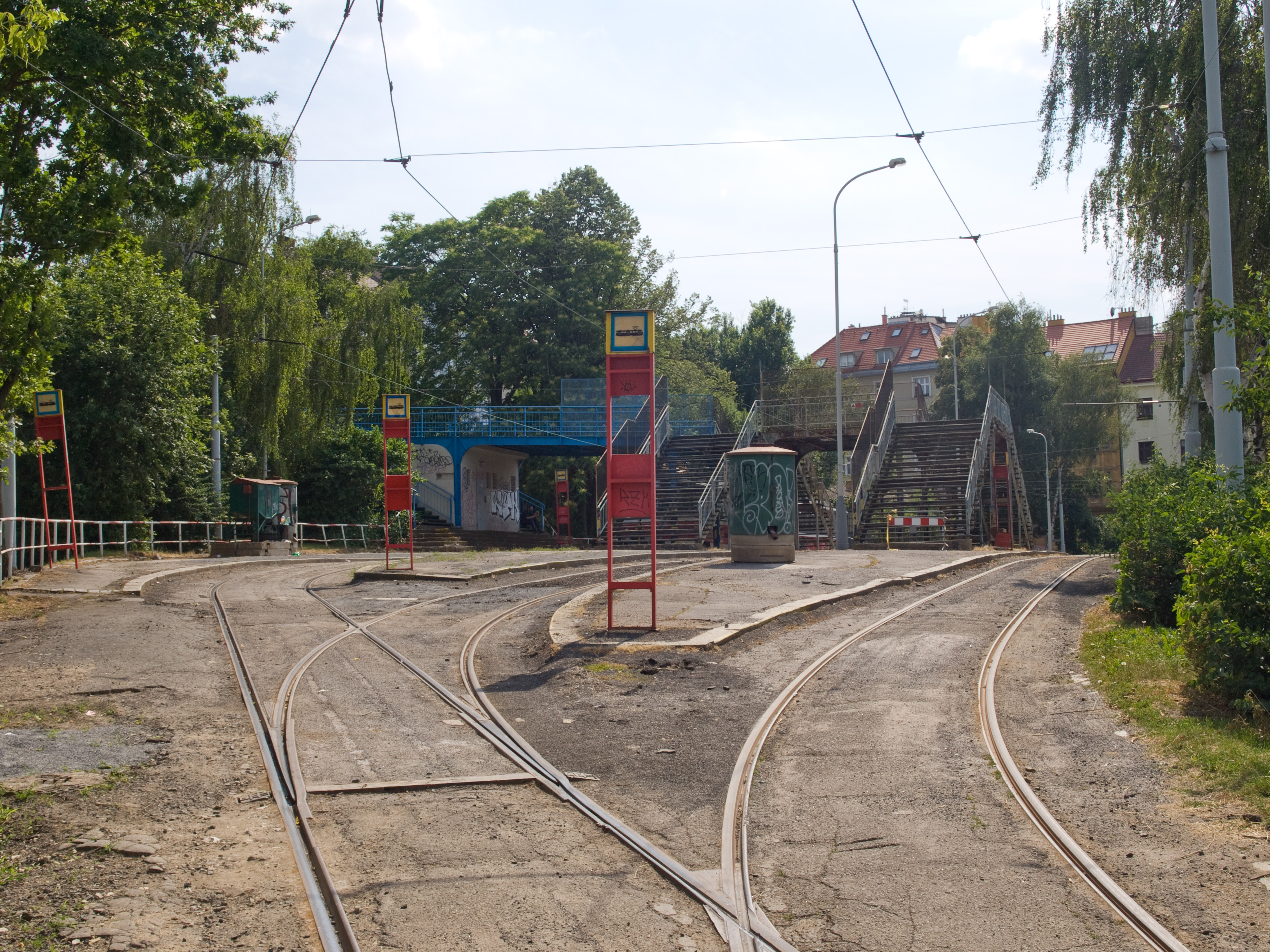 Královka tram loop, Prague